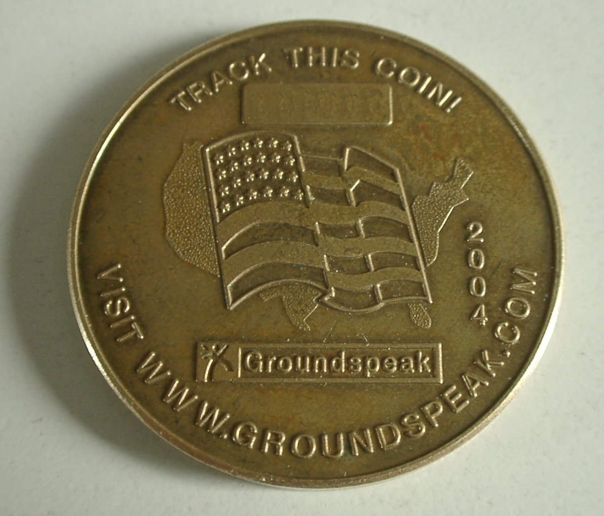 A USA Geocoin, used in Geocaching. The tracking number is obscured to prevent interference with it's movements.